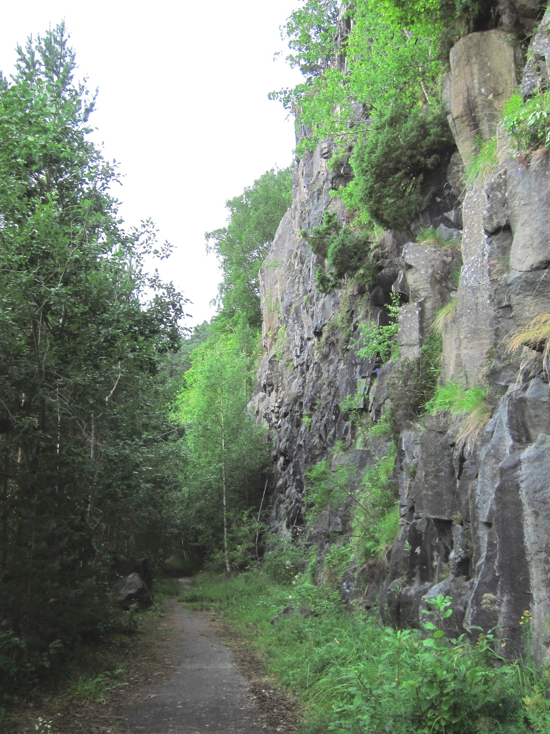 Road at Viset, Ørskog, built 1935, abandoned 1985 (road 650).